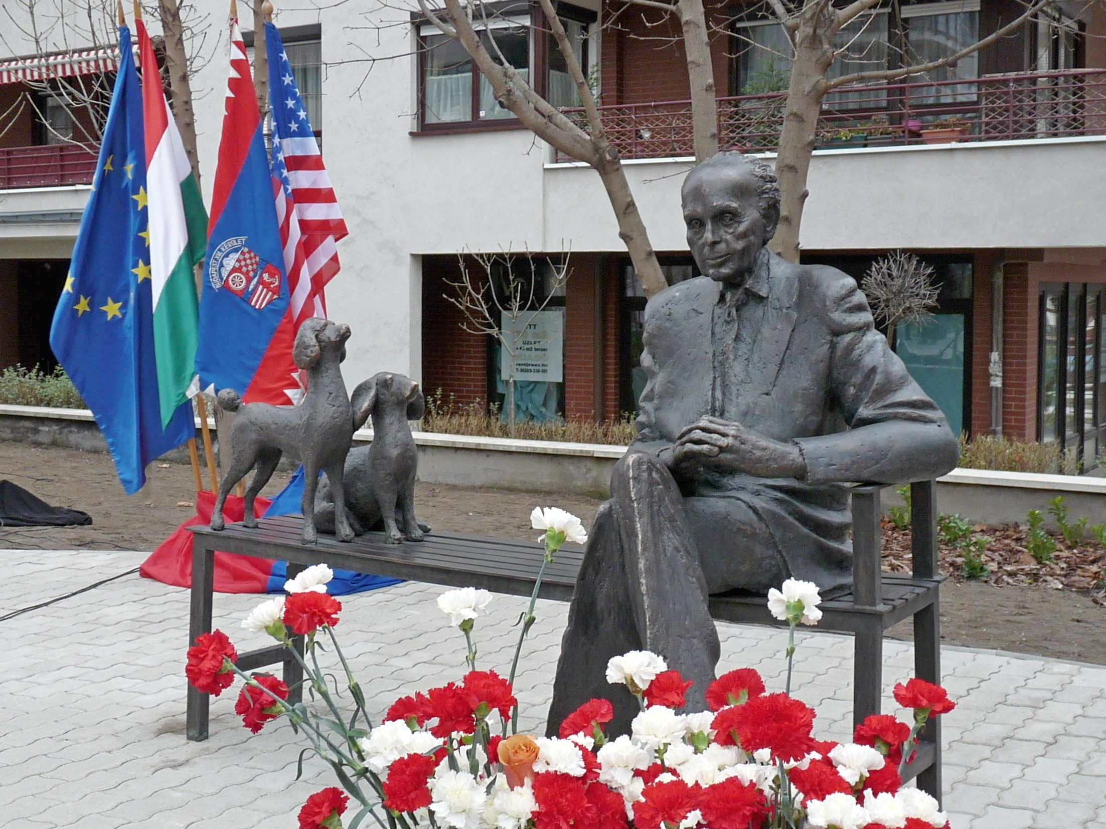 Statue of Tom Lantos (1928–2008) Hungarian-born U.S. Representative in Budapest. The bronze statue sculpted by Mamikon Yengibarian has been erected and inaugurated February 1, 2018 on the promenade bearing the name of the politician. (Budapest, District XIII, Tom Lantos Promenade)